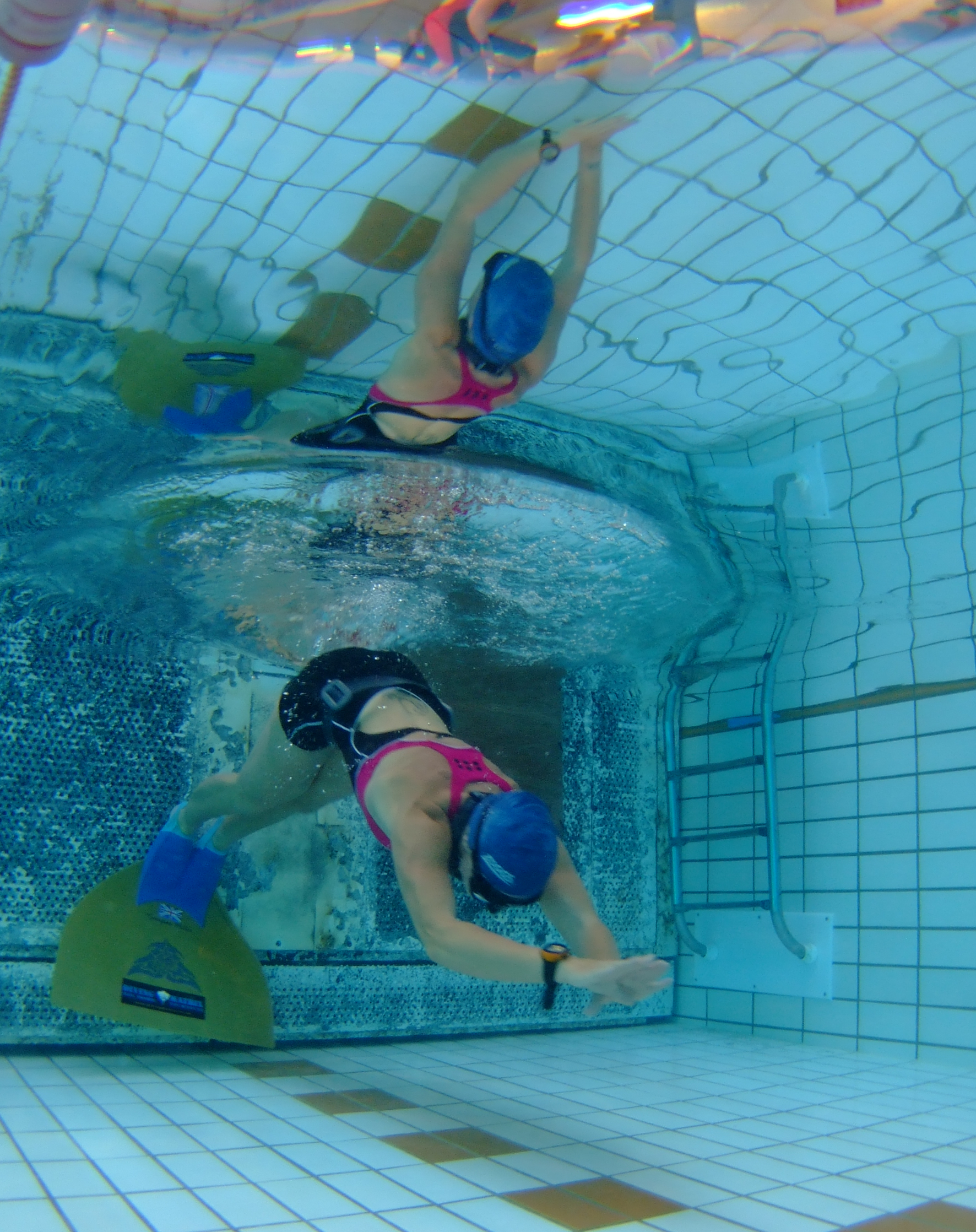 Flickr data on 2011-07-22: Tags: freediving, competition, camberwell, underwater, dynamic, apnea, swimming, fins License: CC BY 2.0 User: jayhem